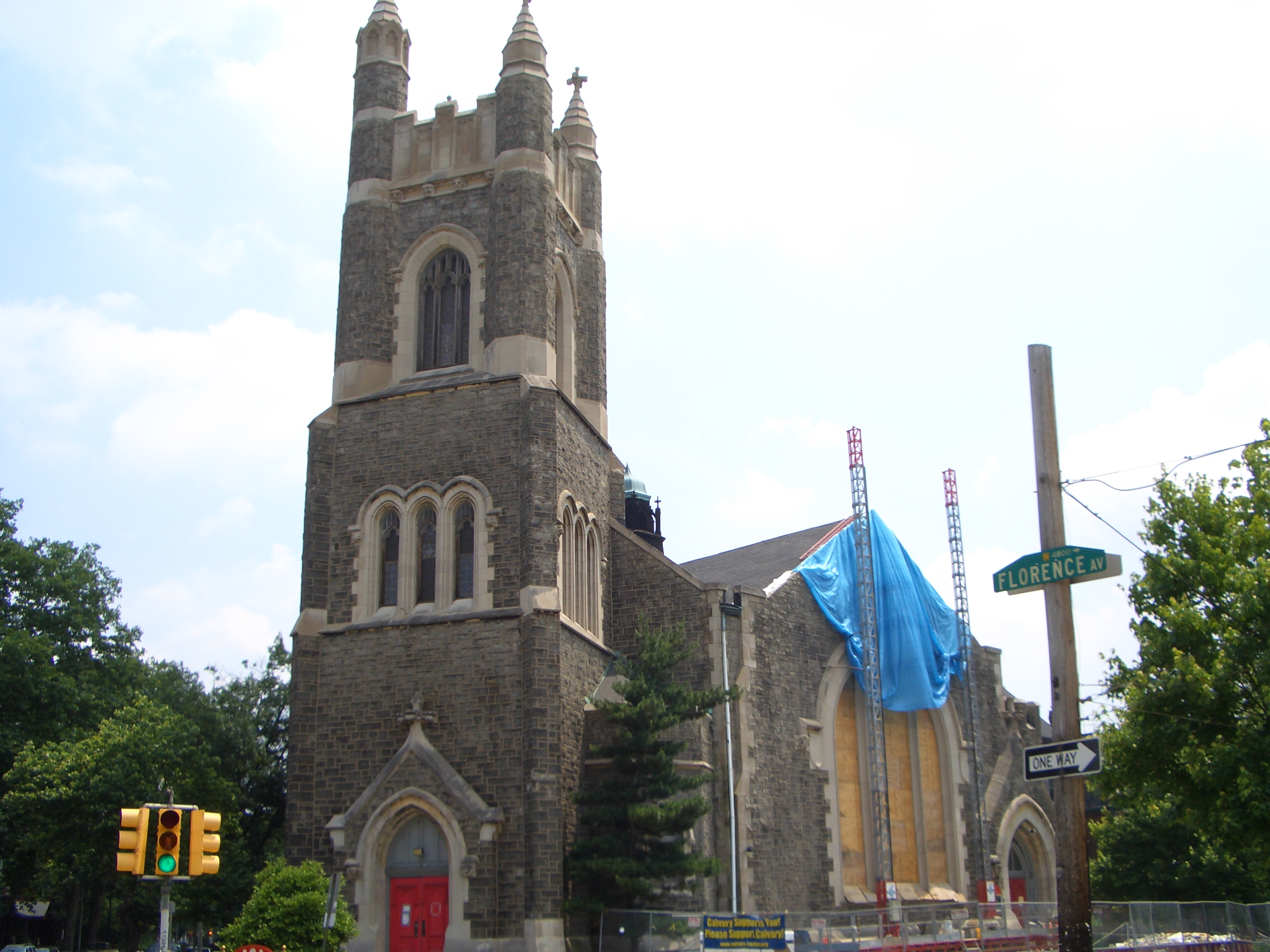 Picture of Calvary United Methodist Church, Philadelphia. A view of the church from the west. Restoration work was being performed in the summer of 2005.